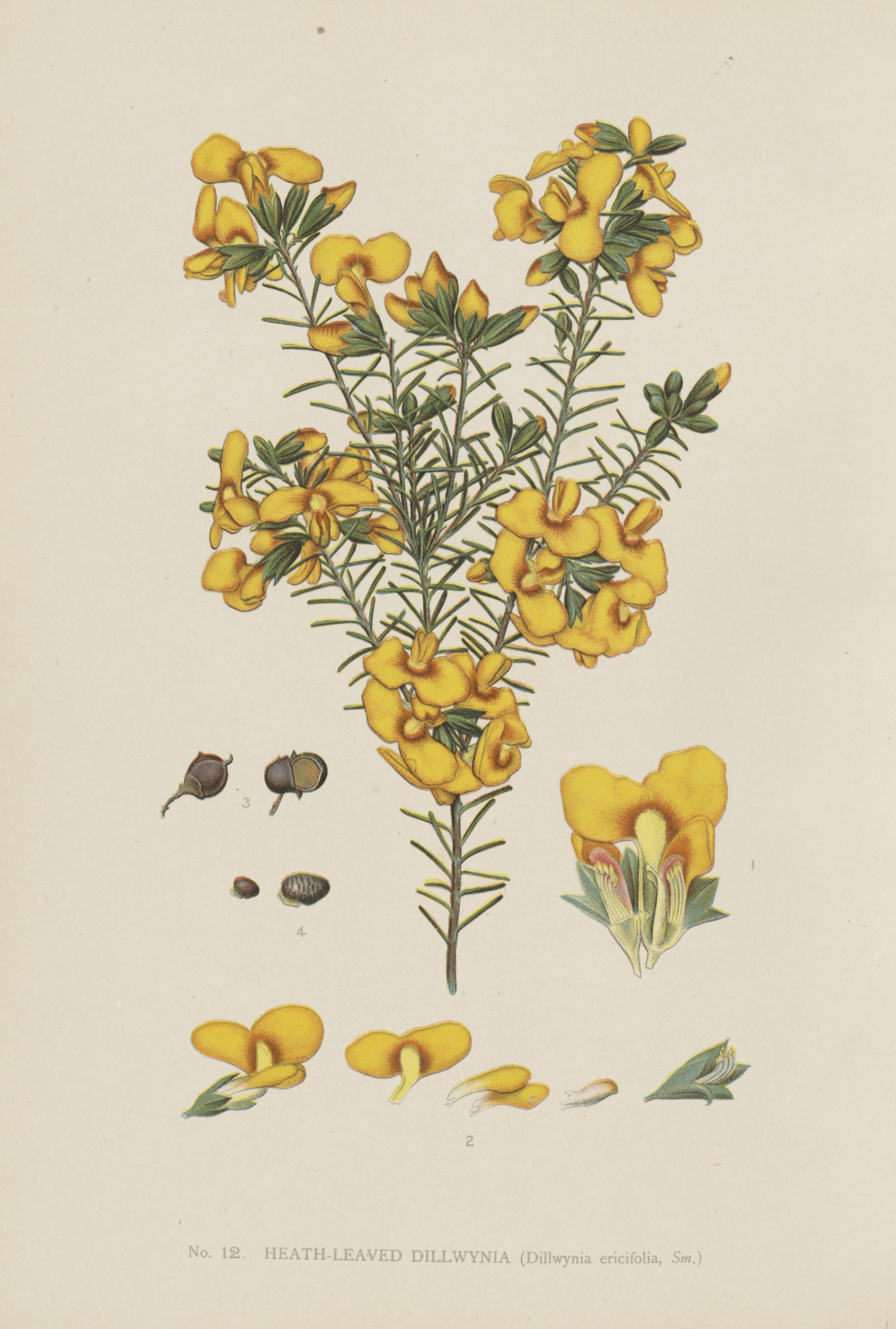 Dillwynia retorta (Eggs & Bacon Pea). Published as: Dillwynia ericifolia From: The Flowering Plants and Ferns of New South Wales - Part 3 (1895) by J H Maiden. NSW Government Printing Office.